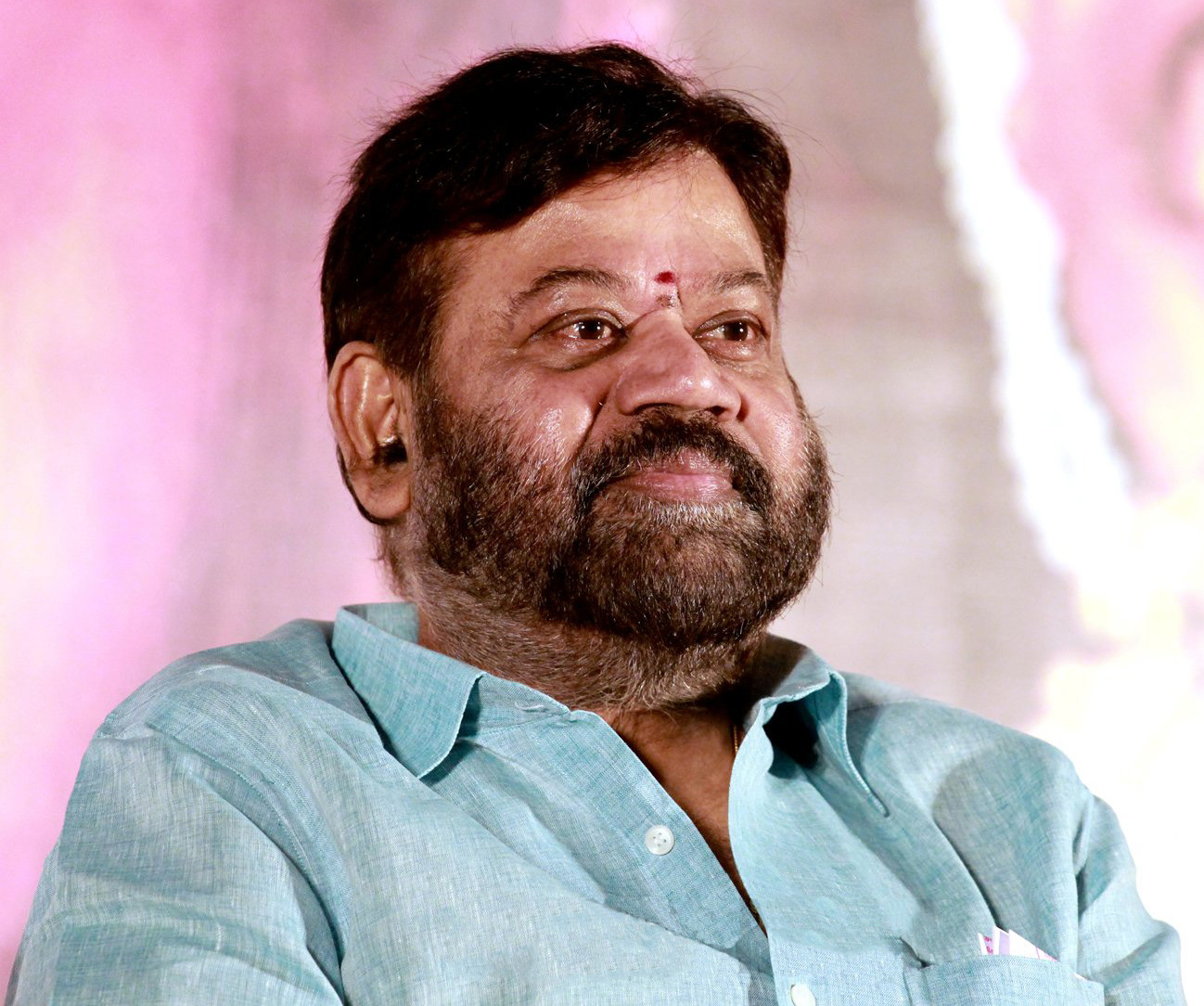 P.Vasu at Aayirathil Oruvan (1965) Audio Launch